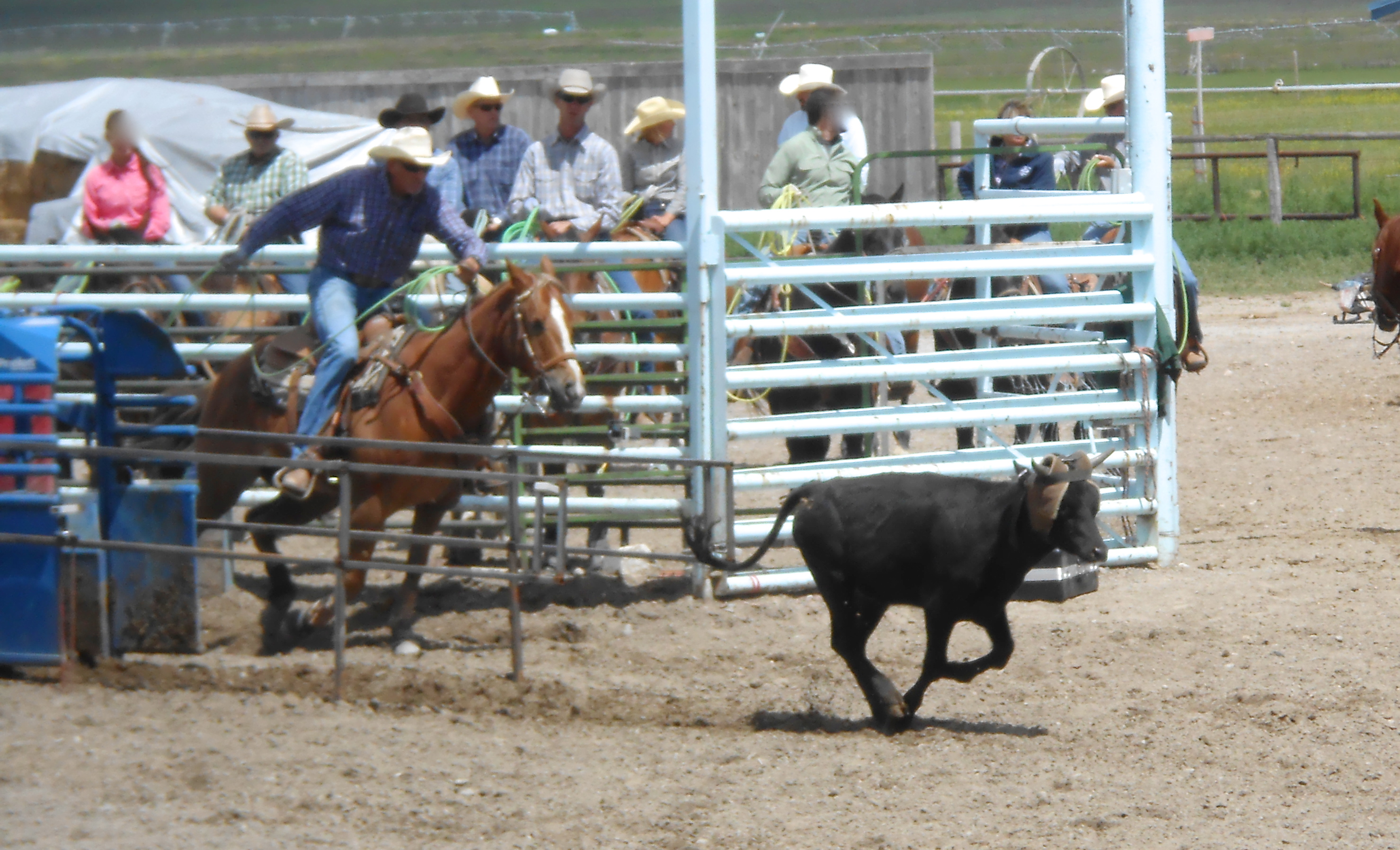 Team roping competition in Townsend, Montana June 2014. Steer is released from chute with a slight head start, horse and rider emerge from box when steer is a predetermined distance out